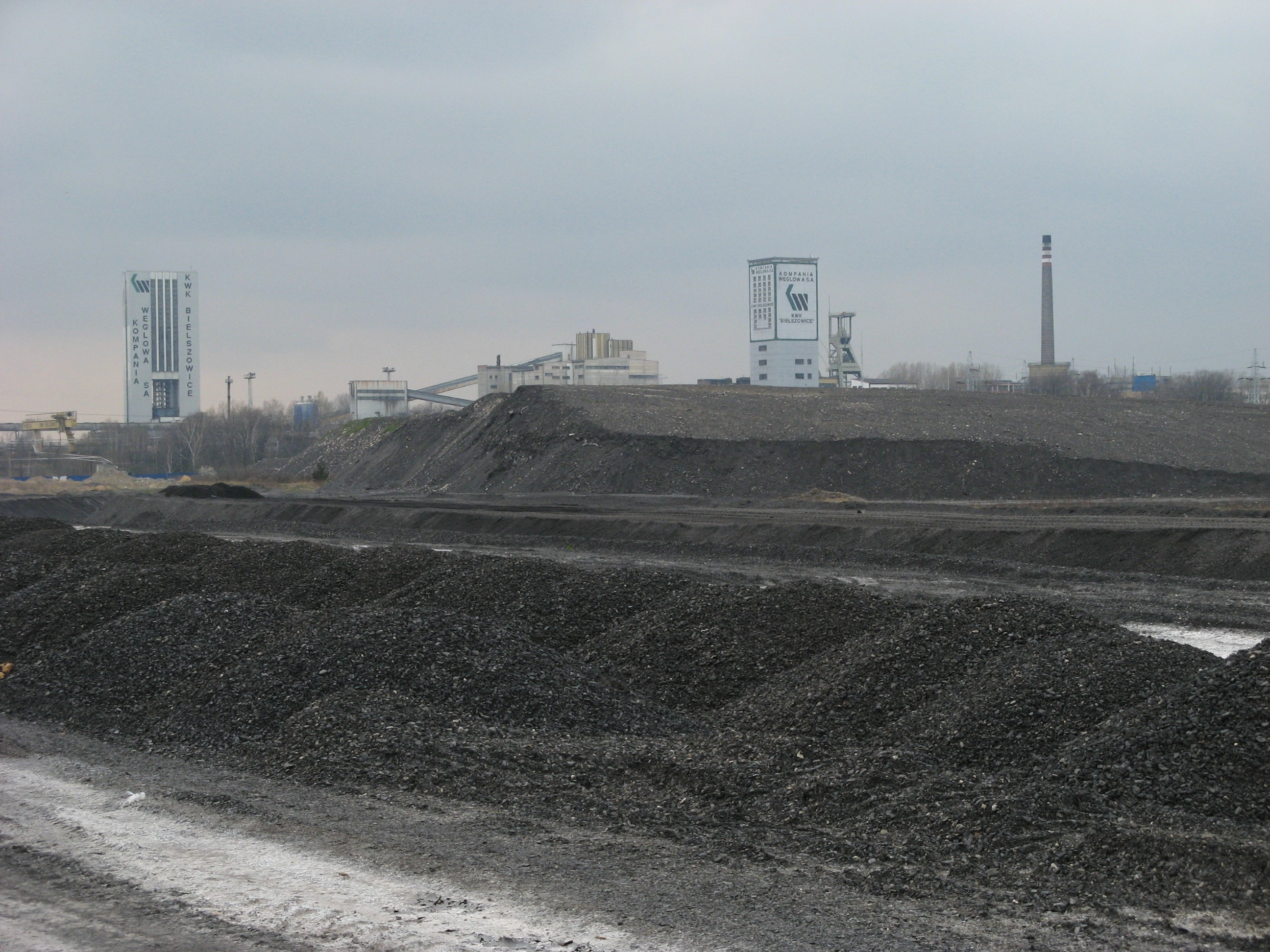 Kopalnia węglowa Bielszowice